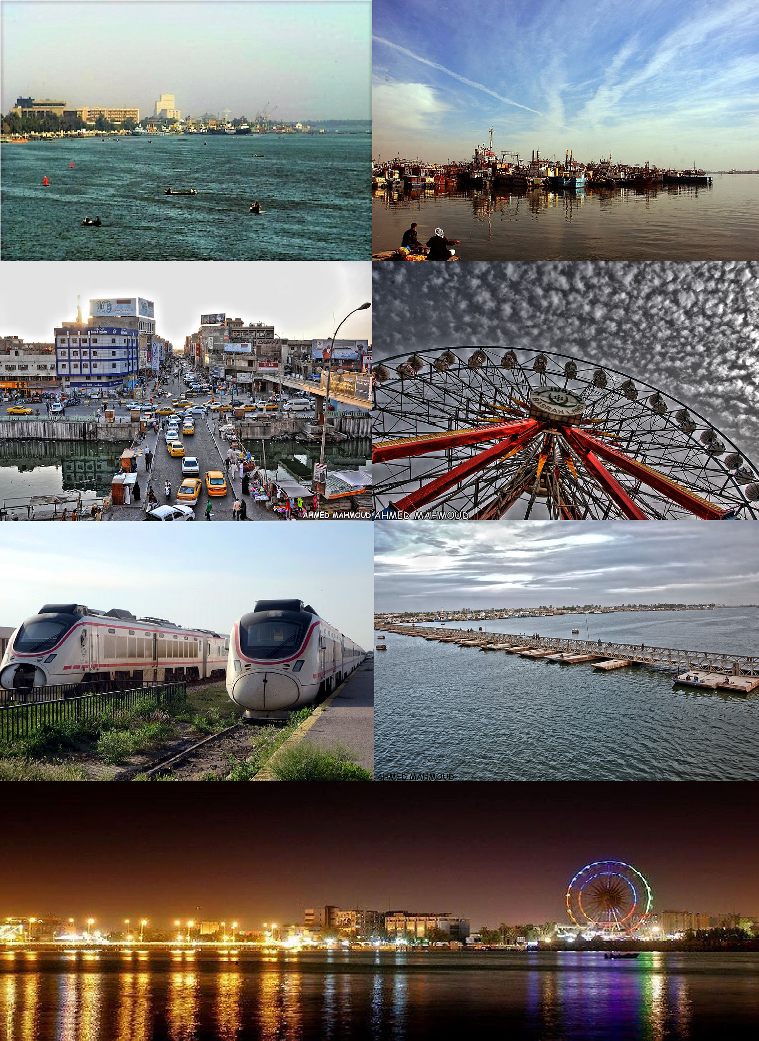 Collage of the Iraqi city of Basra